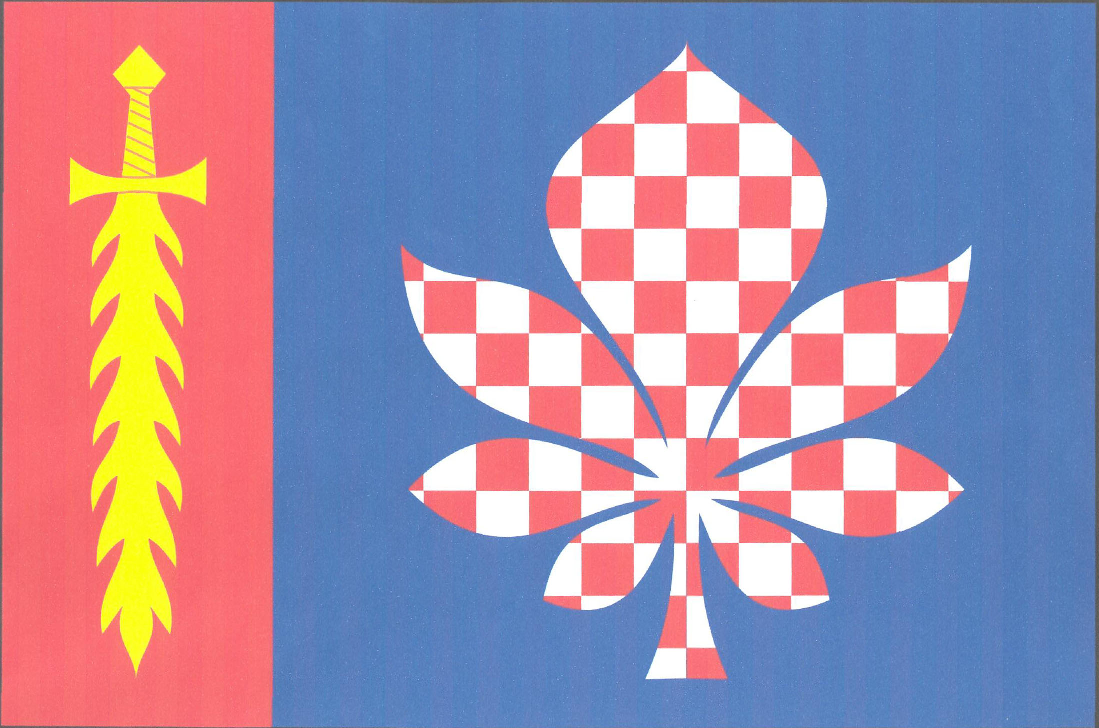 Municipal flag of Mratín , District Prague East, Czech Republic